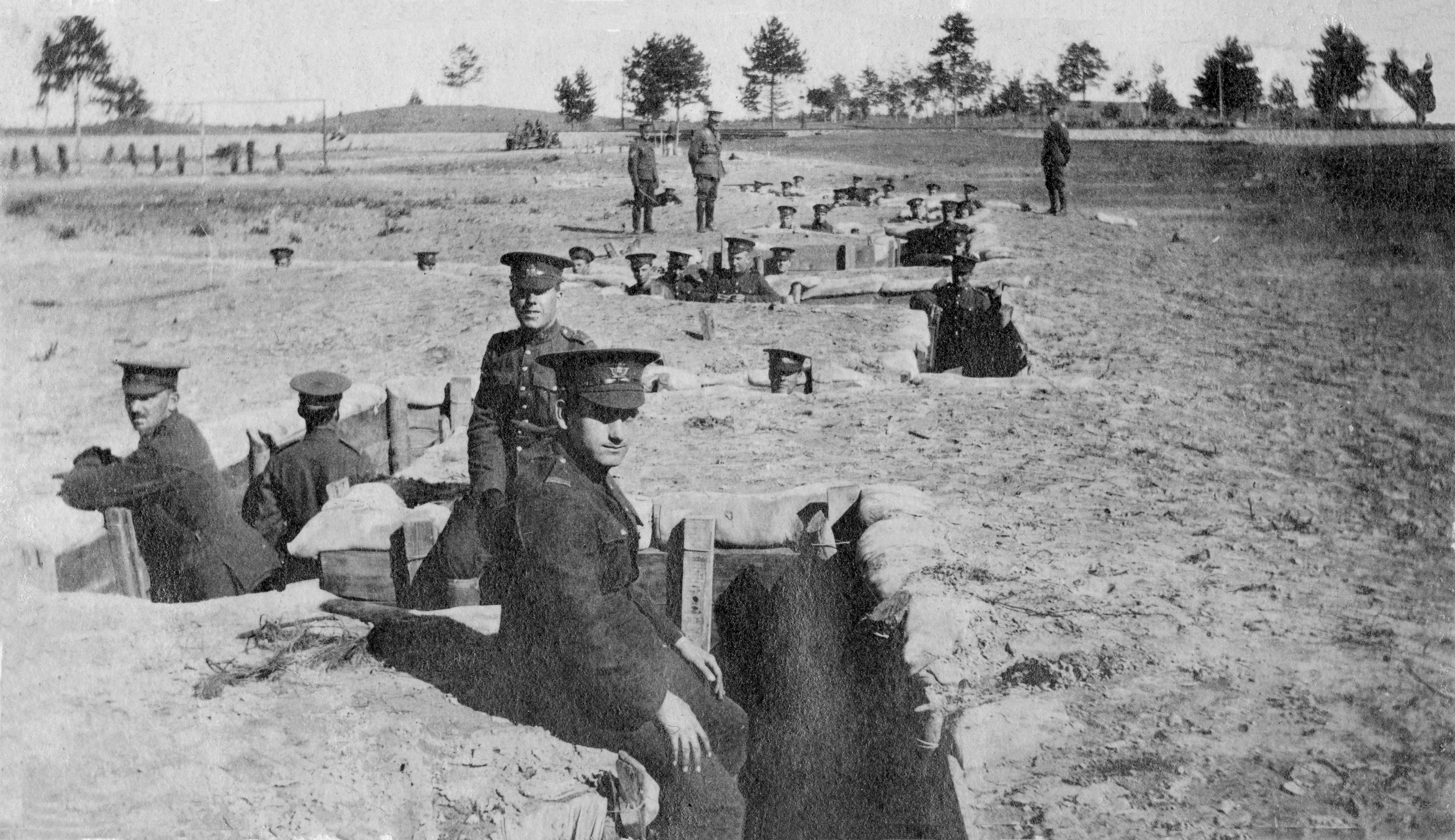 Description: Training for trench warfare at Camp Borden. Date: 1916 Object ID : 2007.0062.200 Order a higher-quality version of this item by contacting the Huron County Museum (fee applies).